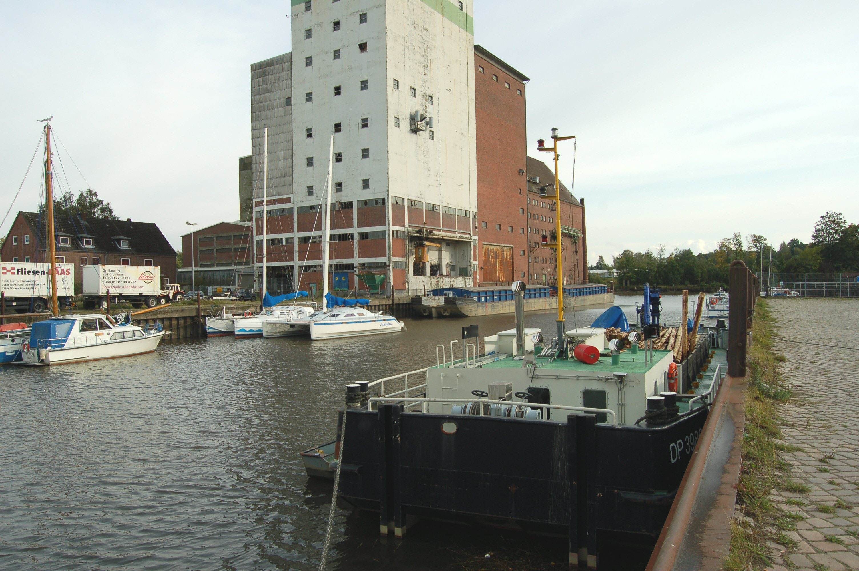 Uetersener Port